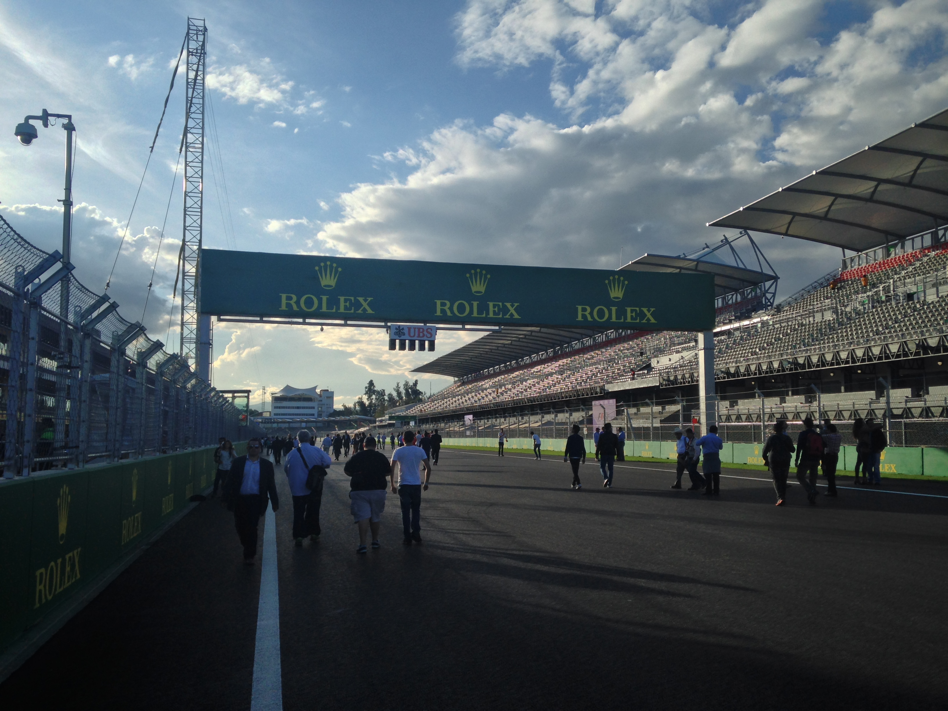 PitWalk Mexican Grand Prix 2015, Autódromo Hermanos Rodríguez. Mexico City, Mexico.